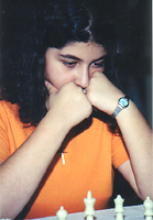 WFM Tatev Abrahamyan. United States of America